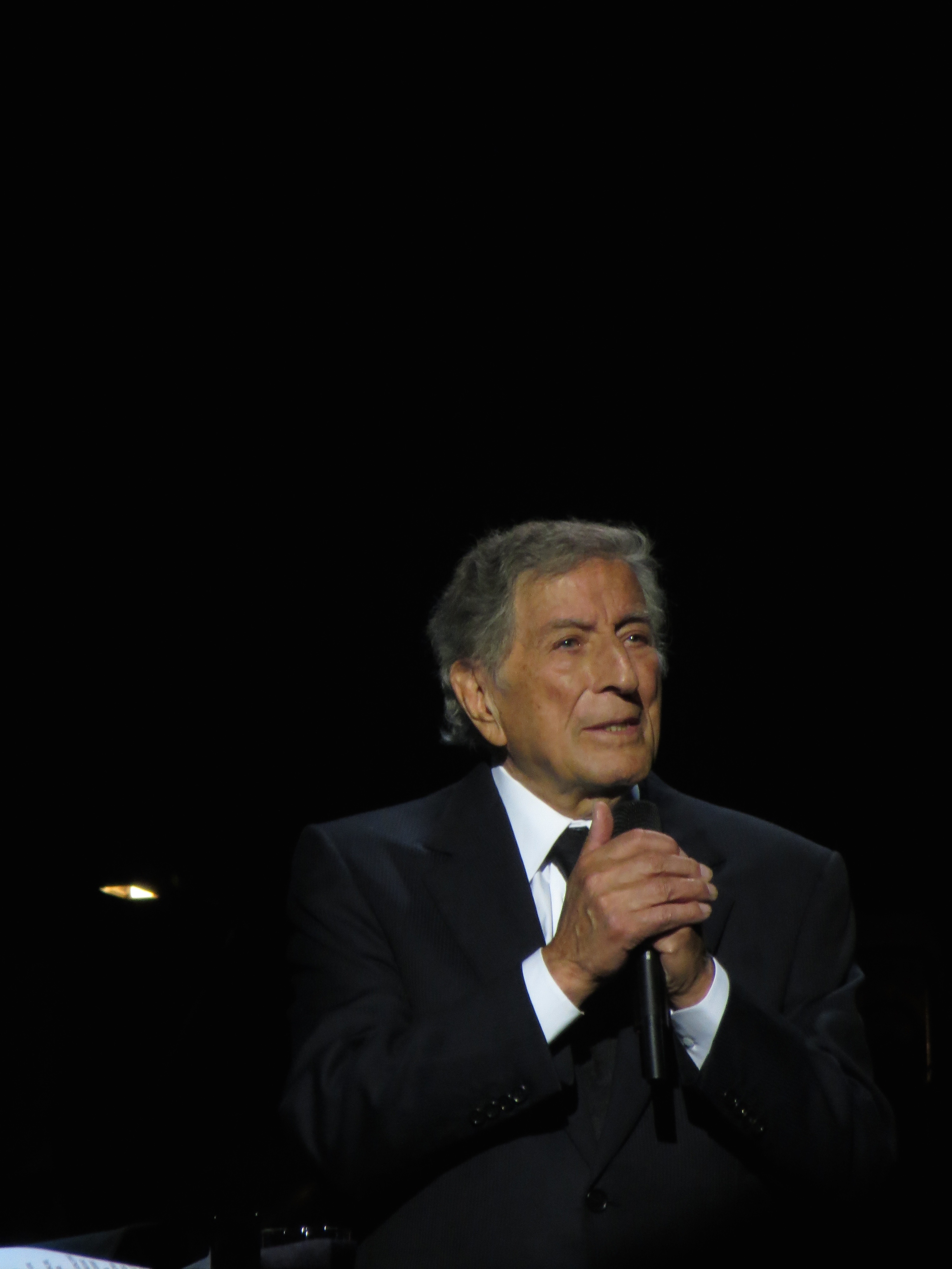 Tony Bennett & Lady GaGa, Cheek to Cheek Tour, London Royal Albert Hall, 8 June 2015.